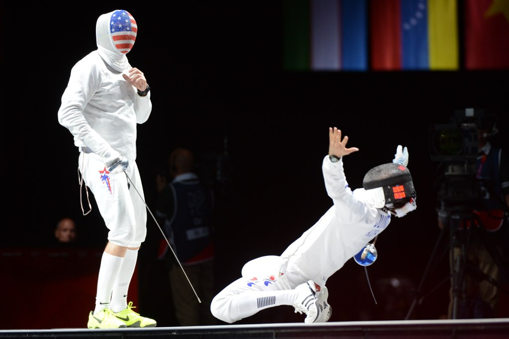 U.S. Air Force Reserve Capt. Weston "Seth" Kelsey, left, is stunned after Korea's Jinsun Jung stabs him in the toe with 20 seconds left in sudden-death overtime to win the Olympic bronze medal in épeé fencing at the ExCel Centre in London Aug. 1, 2012.